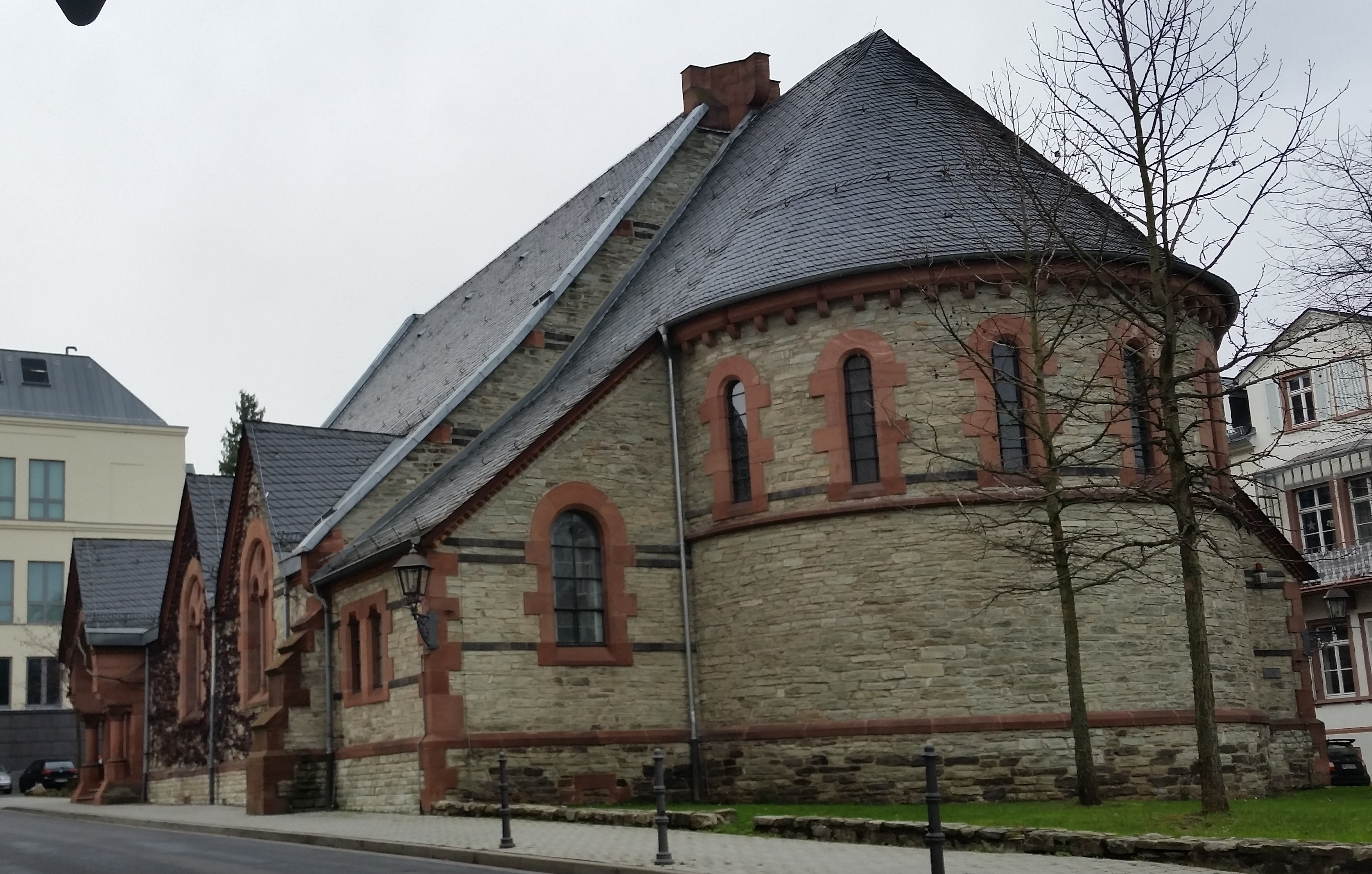 The „Englische Kirche“ (English Church) is the building of a former church used by the Anglican Communion, which is used as a cultural center nowadays.